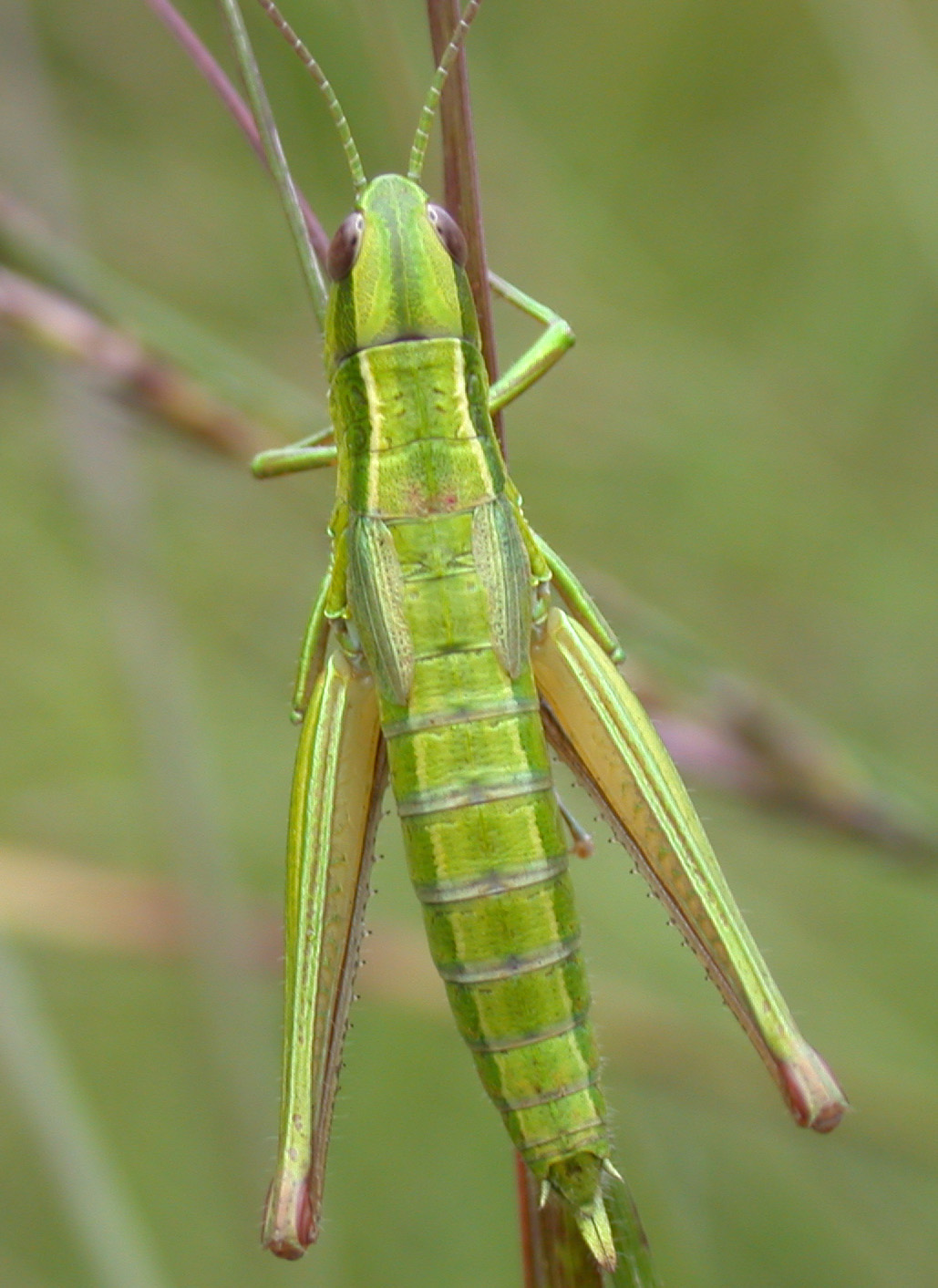 Euthystira brachyptera female (bog near Milkel, Germany)